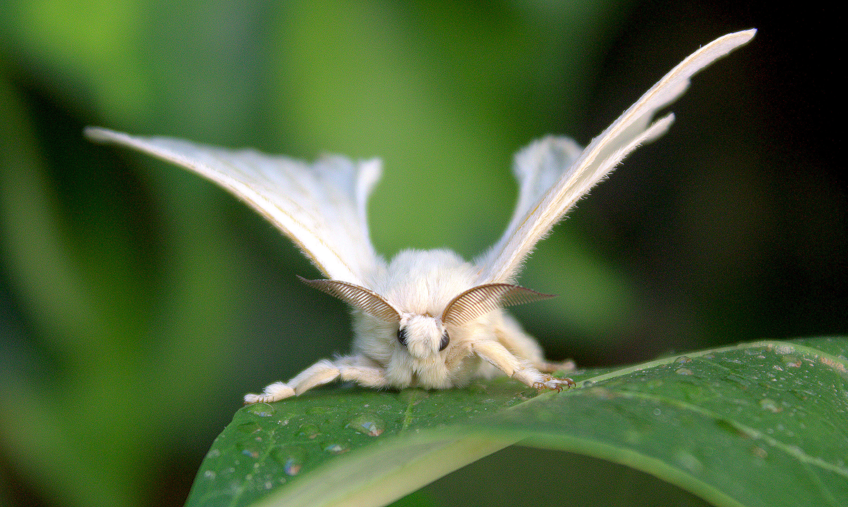 פרפר טוואי המשי Bombyx mori